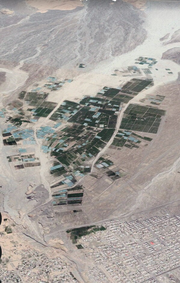 Bandsaraji